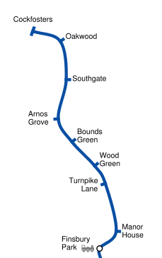 Geographically accurate map of the Cockfosters extension of the London Underground's Piccadilly Line taken from :Image:Piccadilly Line.png by ed g2s • talk and James D. Forrester utilising GPS data.